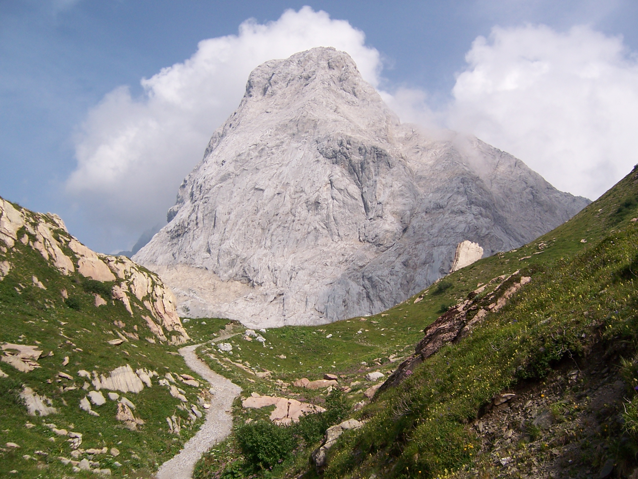 Carnic Alps (Austria); View of the Wolayer Seewarte just before getting the glimpse to the Wolayer See.